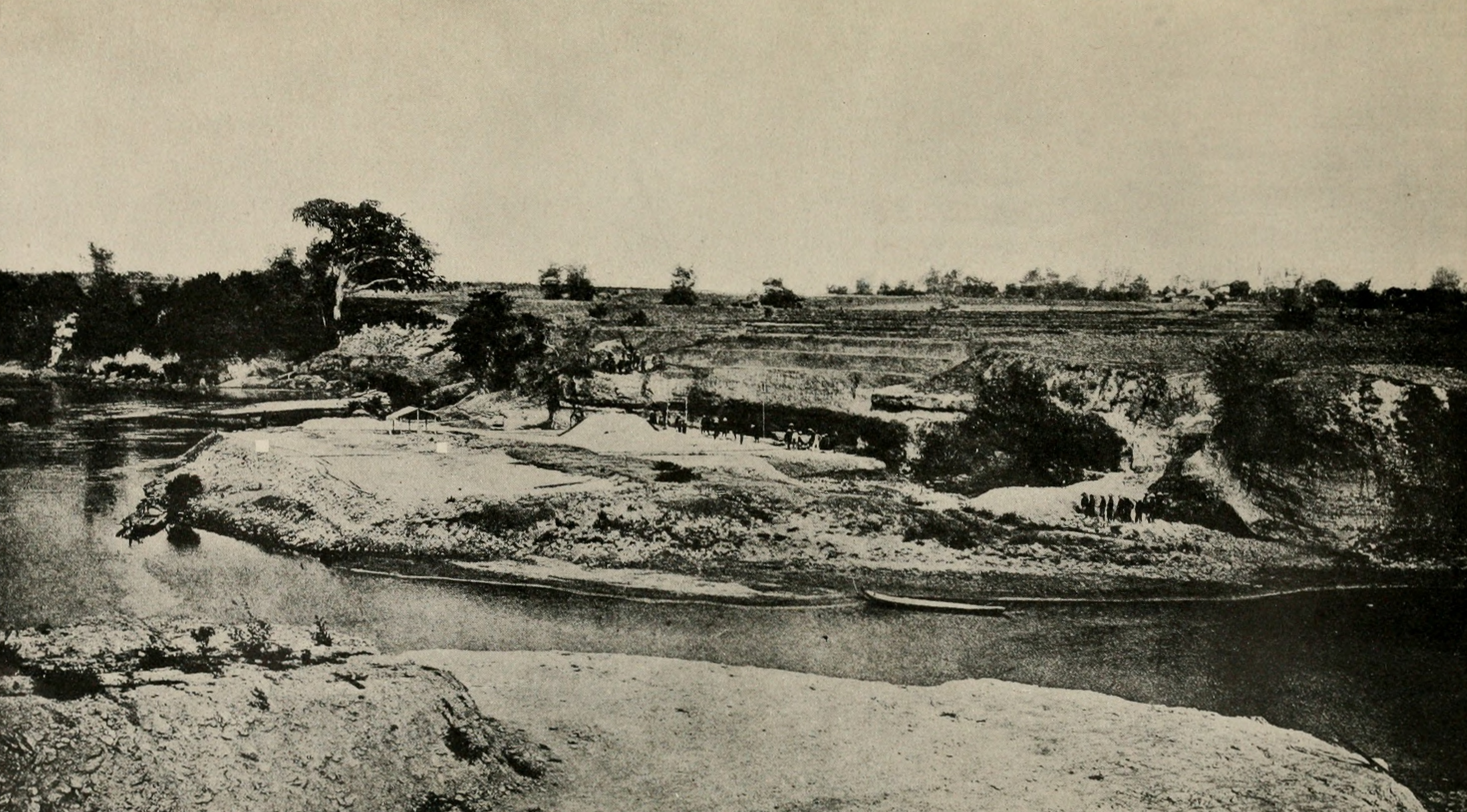 The Locality of the Pithecanthropus find, on the Bengavian River, Near Trinal, Java (After MME. SELENKA AND M. BLANKENHORN). The two white squares show where the femur ( on left) and the skullcap (on right and more behind) were discovered.